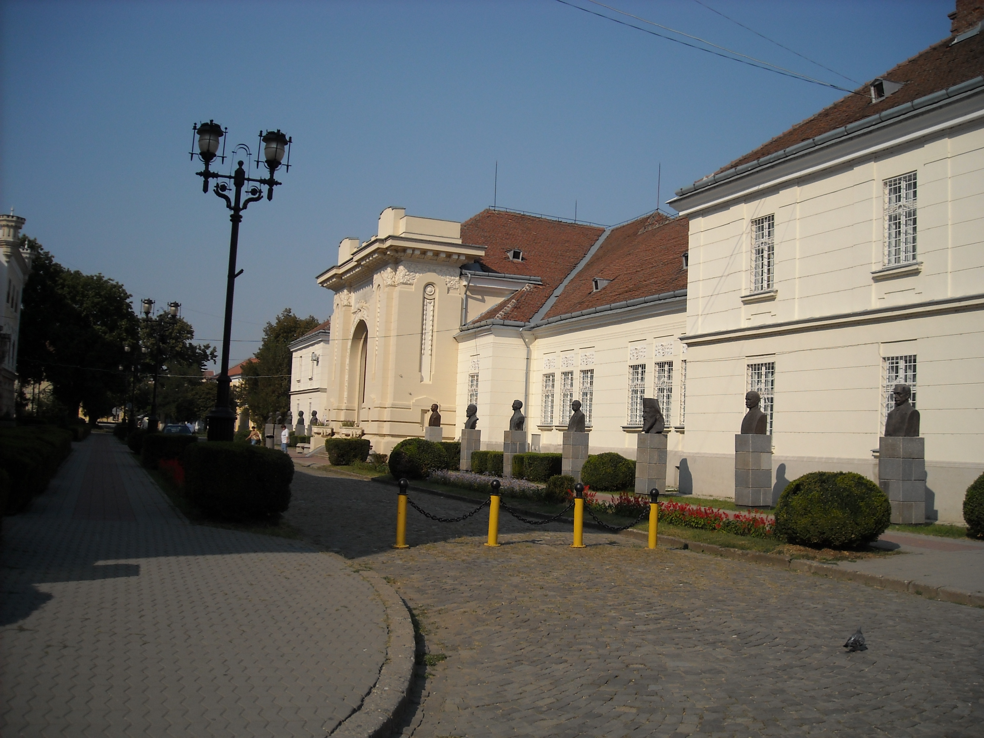 the Unification Hall (Sala Unirii) in Alba Iulia